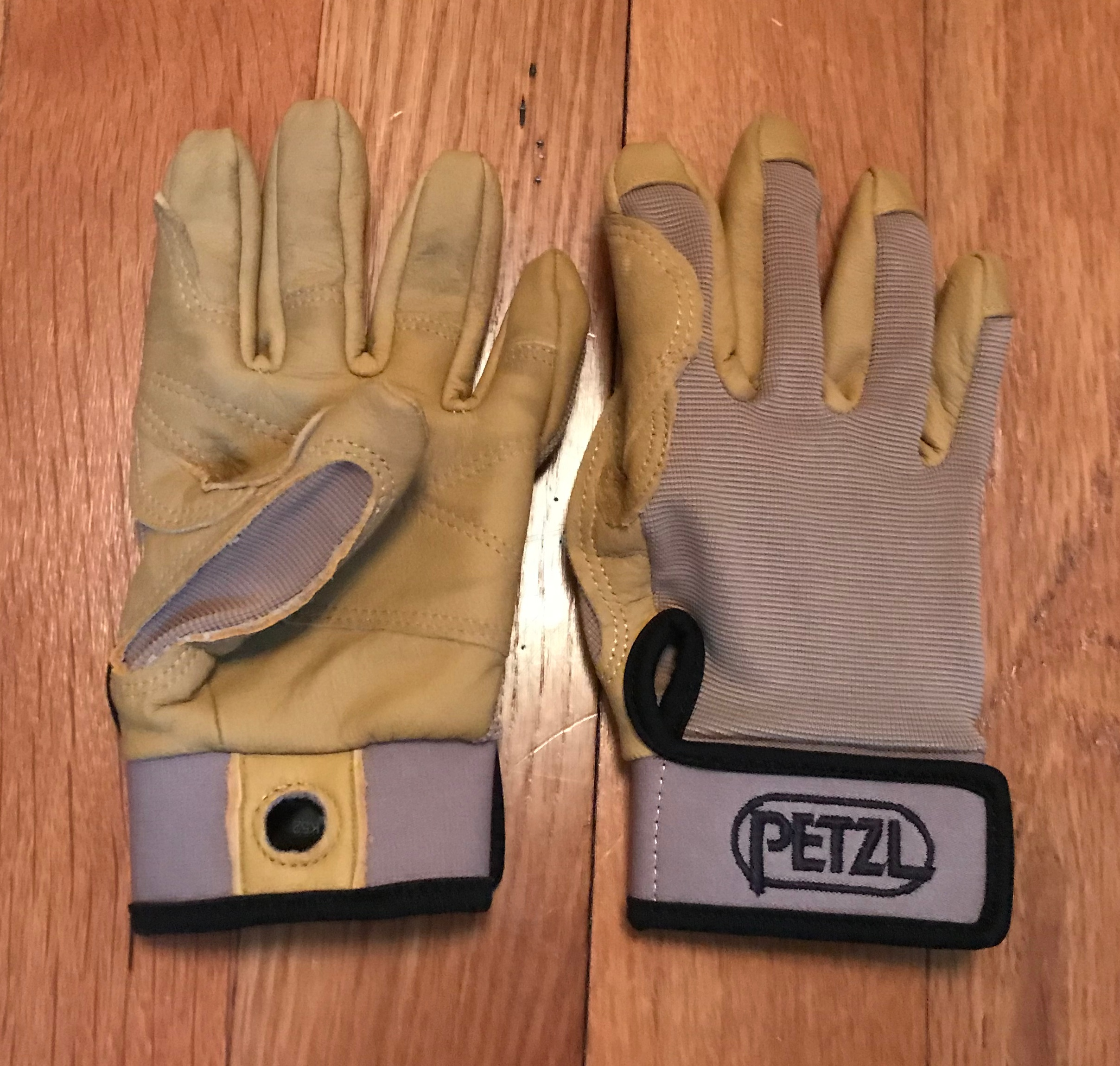 Petzl